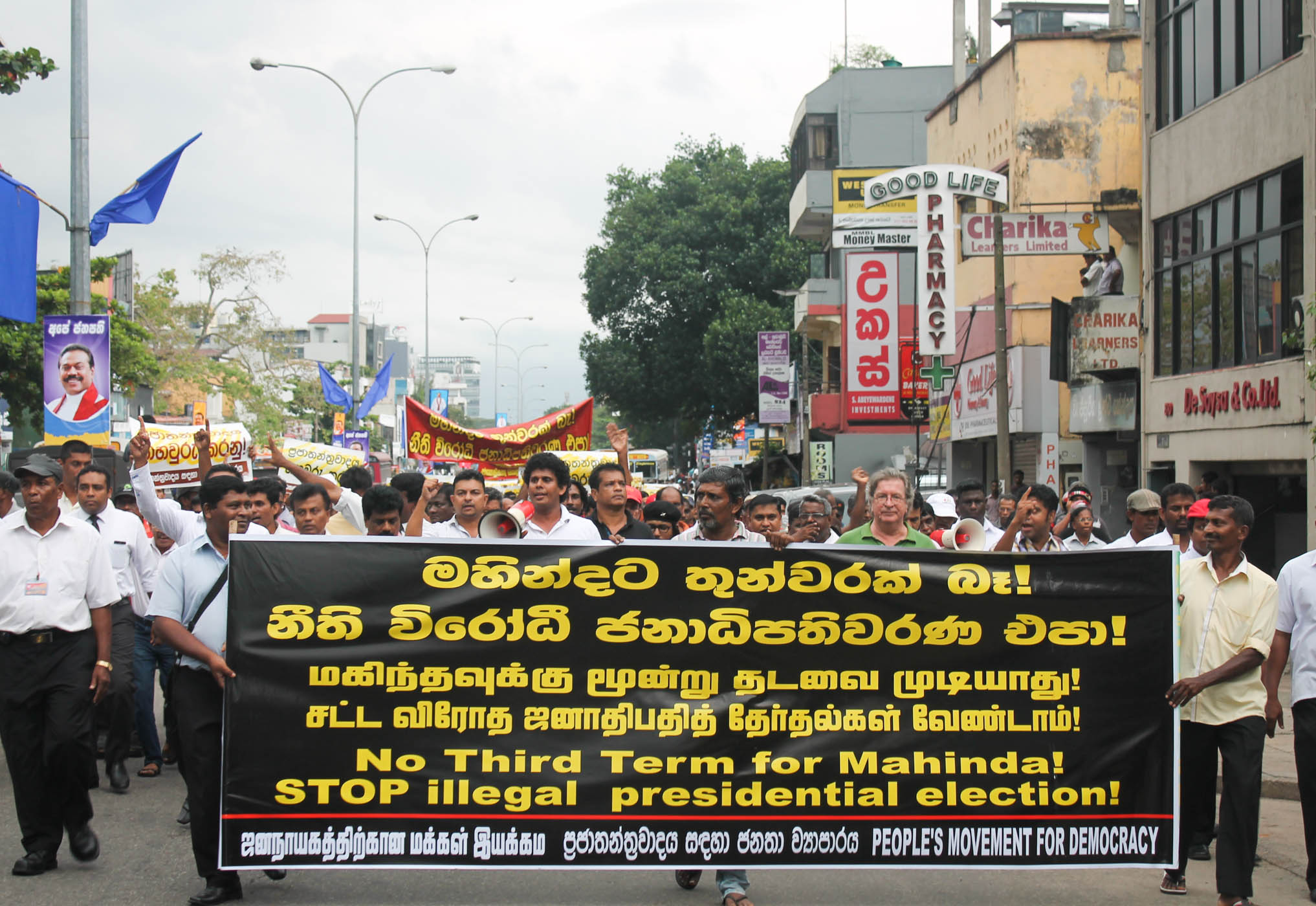 IMG_5446 "Abolish Executive Presidency" protest organised by the People's Movement for Democracy in Colombo, Sri Lanka on 18 November 2014